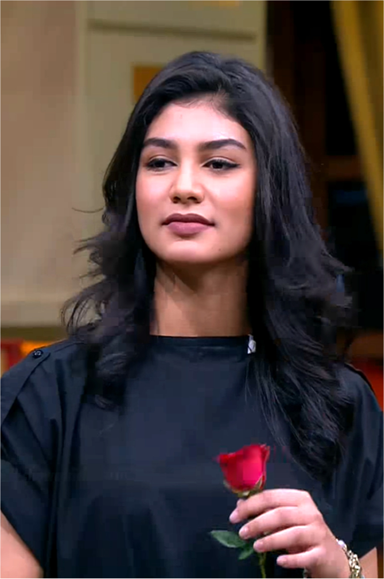 Jihane Almira Chedid on Ini Sahur Net Mediatama Indonesia TV